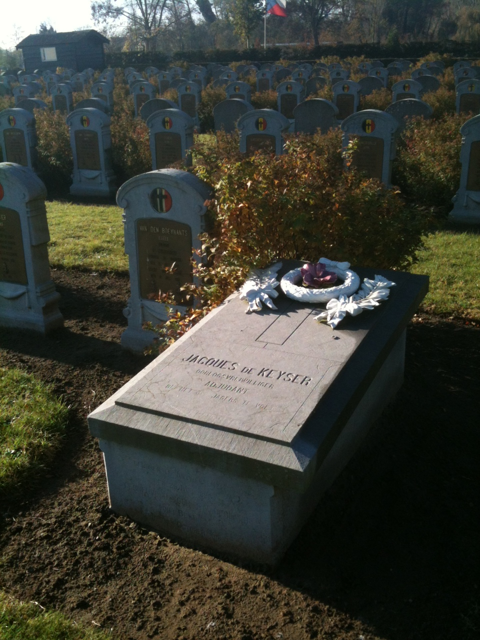 Personal tombstone on the grave of a World War One soldier amidst the official Belgian gravestones on a military cemetery.